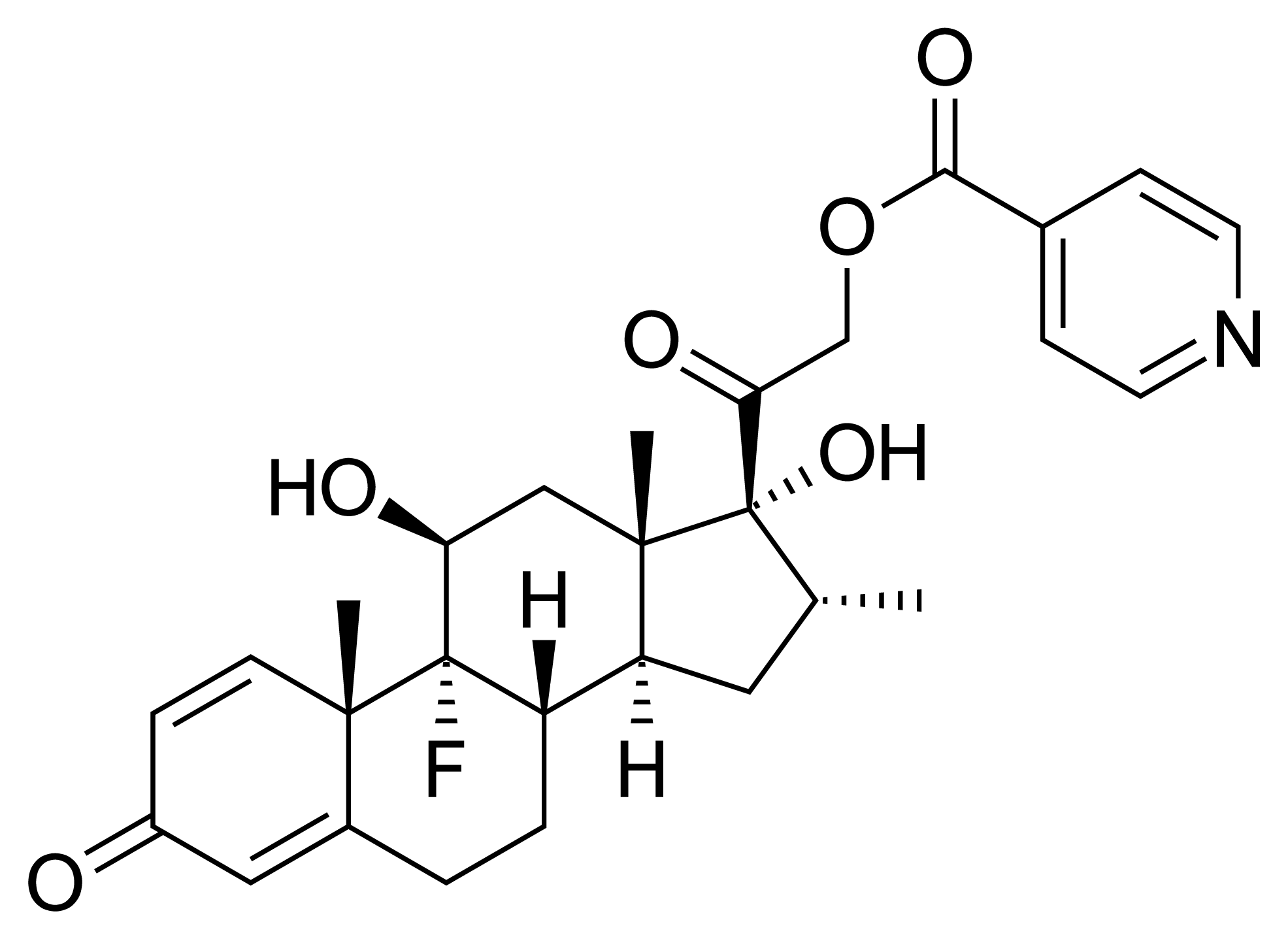 chemical structure of dexamethasone isonicotinate